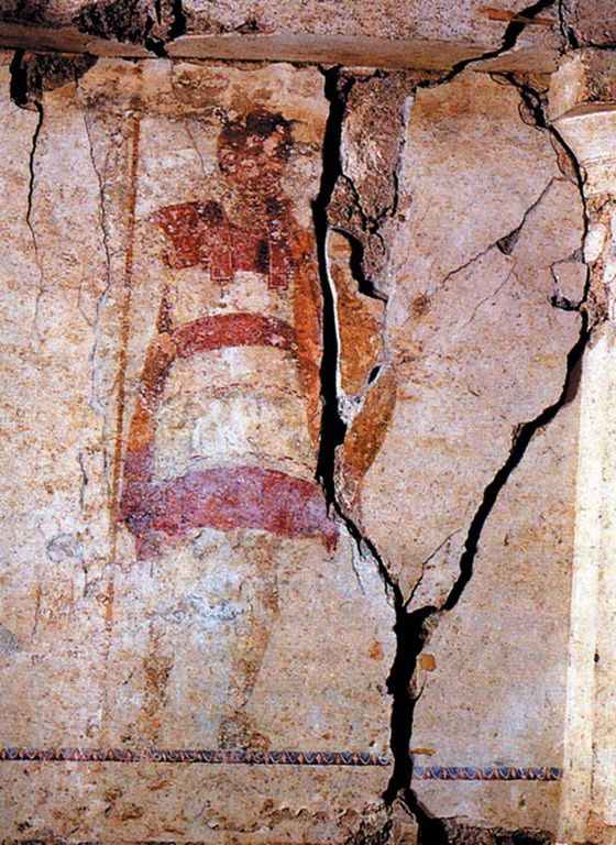 Fresco from the Tomb of Judgment in ancient Mieza (modern-day Lefkadia), Imathia, Central Macedonia, Greece, showing religious imagery of the afterlife. This particular painted section shows and armed and armored soldier wielding a spear and wearing a linothorax. For more information, see Municipality of Naoussa webpage entitled "The Macedonian Tomb of Judgment".